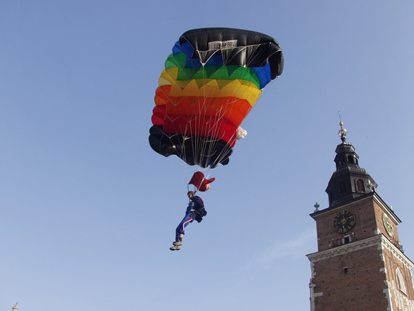 Krakow - jump on the Main Square